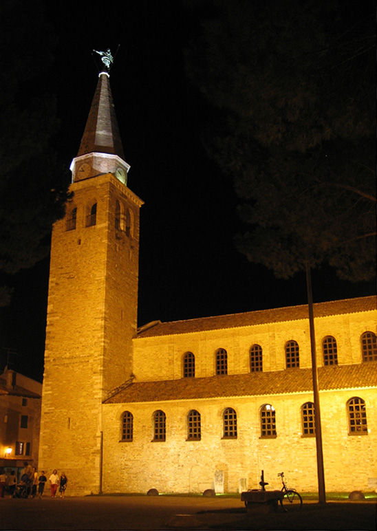 Grado, 2004. Cathedral S Eufemia